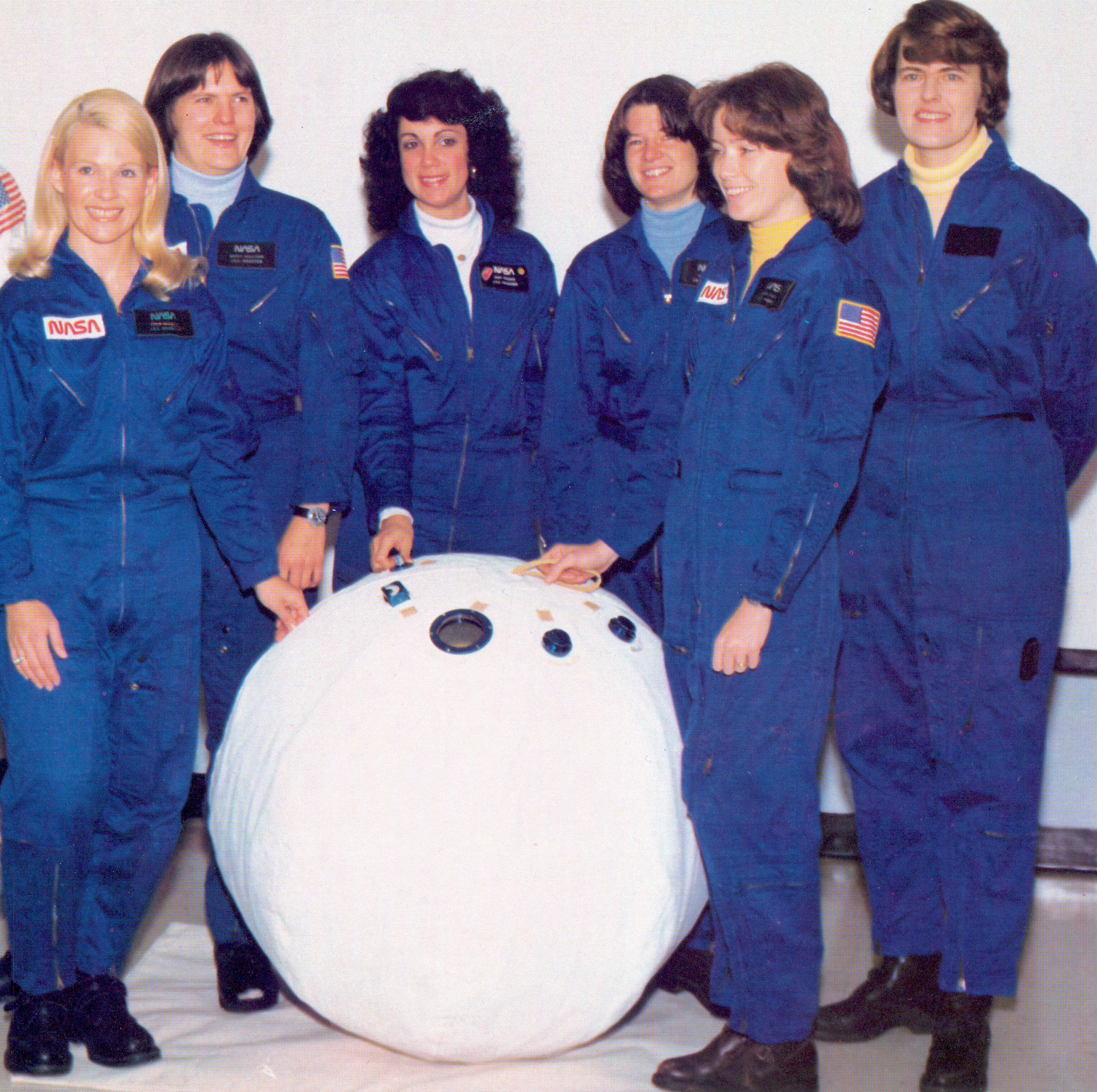 NASAs first six women astronauts pose with a mockup of a personal rescue enclosure (PRE) or "rescue ball" in the crew systems laboratory at the Johnson Space Center. The PRE was created as a possible means of transporting astronauts from one Shuttle to another in case of an emergency. The PRE only reached the prototype stage and never flew on any missions. The group includes mission specialists, from left to right, Margaret R. (Rhea) Seddon, Kathryn D. Sullivan, Judith A. Resnik, Sally K. Ride, Anna L. Fisher, and Shannon W. Lucid.